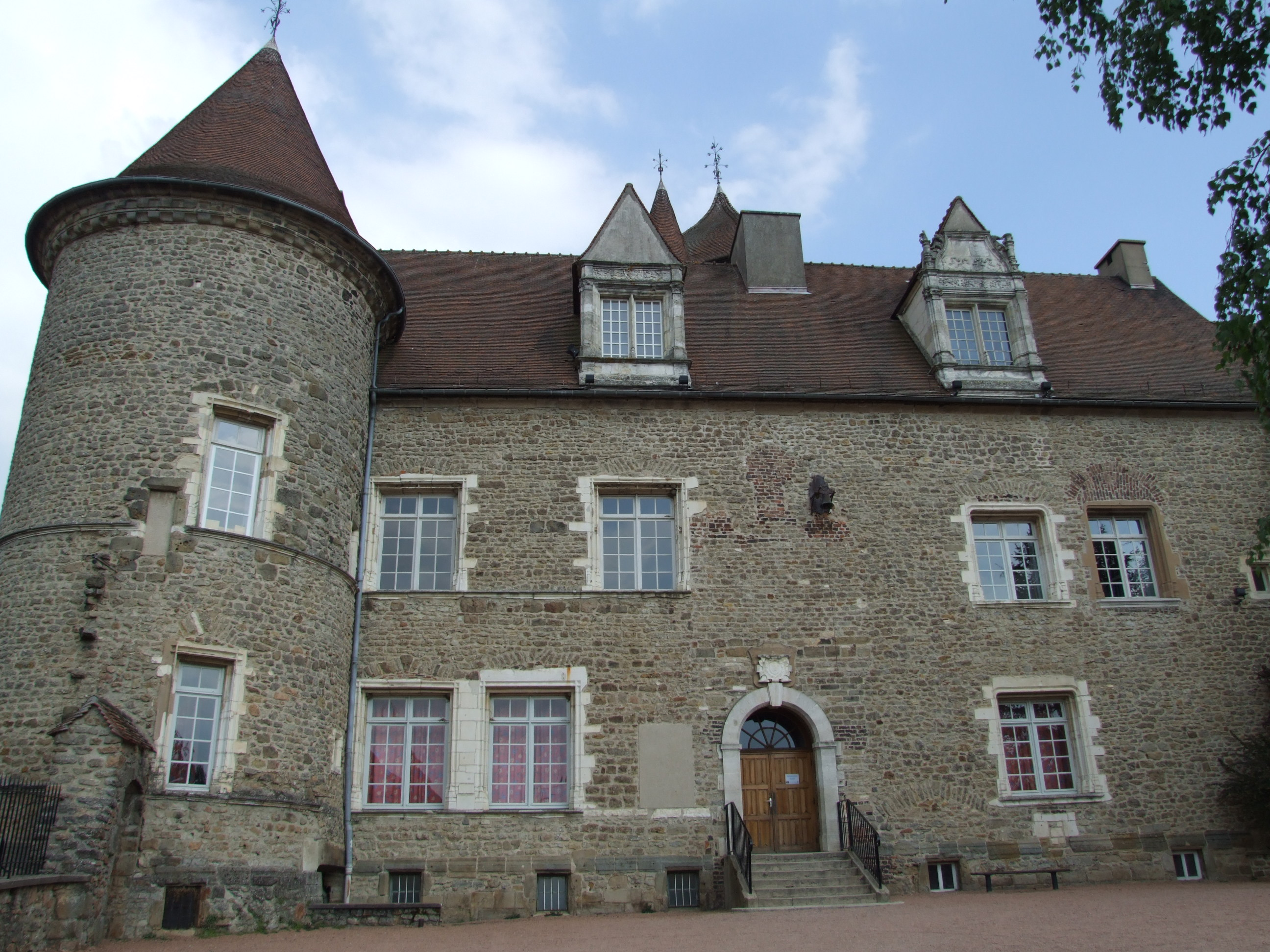 Arnay-le-Duc, Burgundy, FRANCE